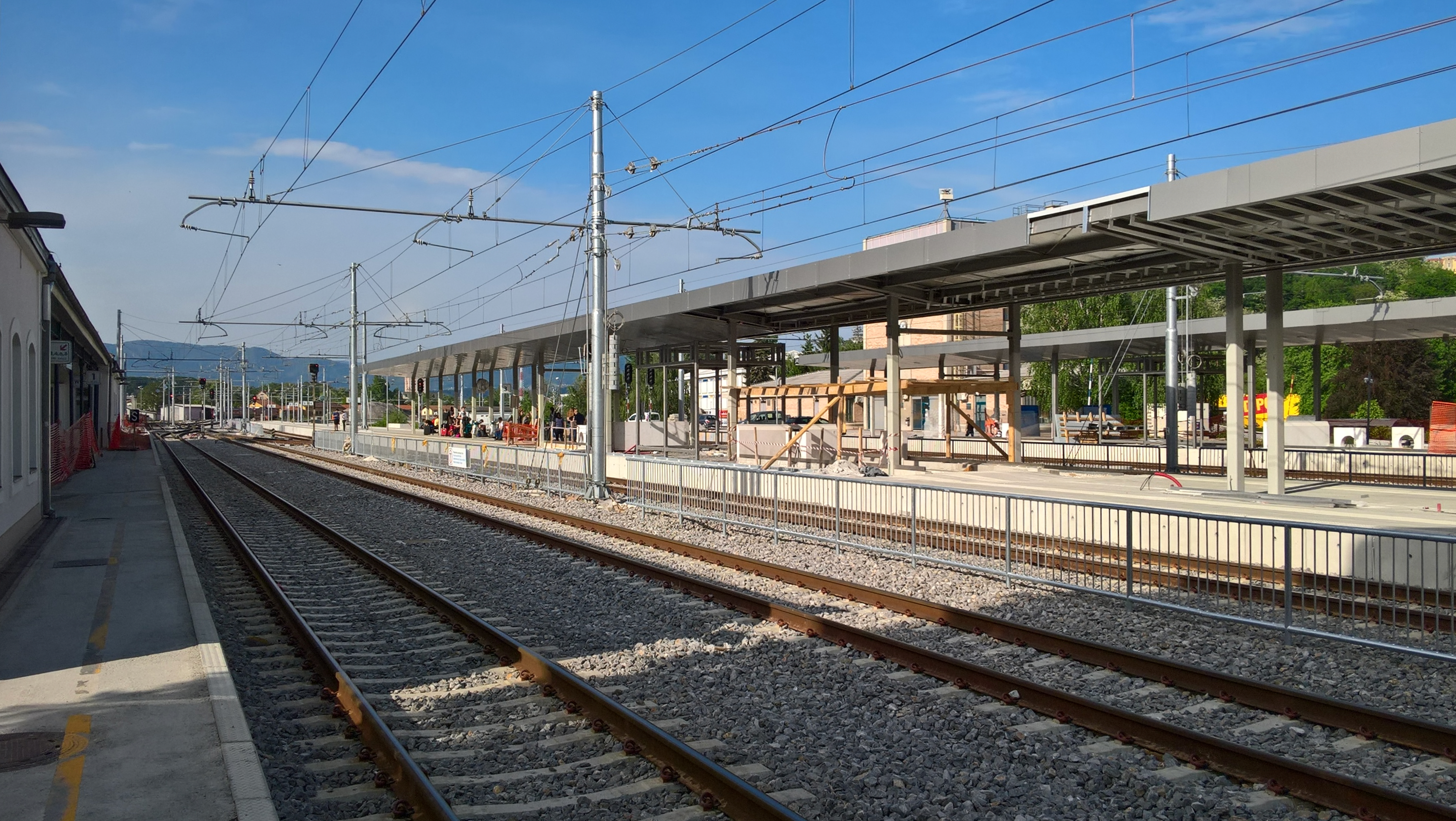 Celje train station platforms 3–4 being renovated